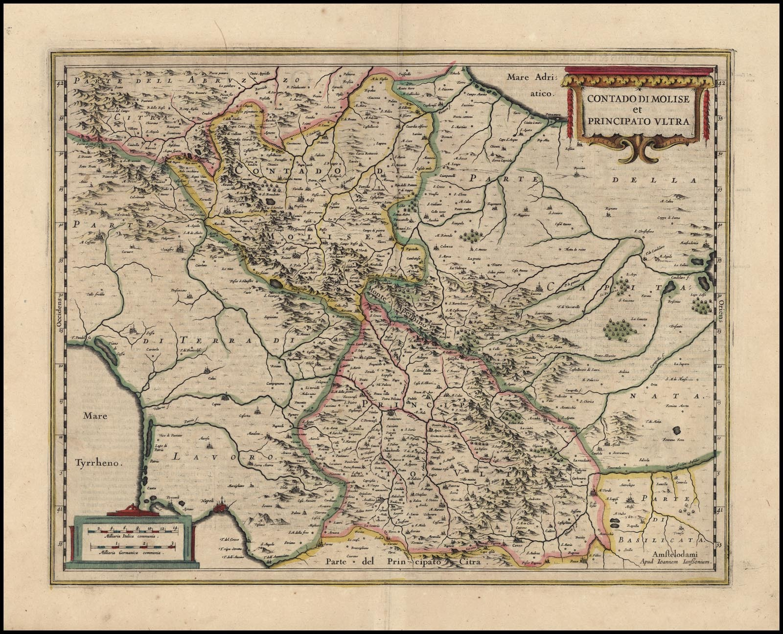 Contado Di Molise et Principato Ultra, Amsterdam, 1635. Hand Colored Size: 19.25 x 15 inches